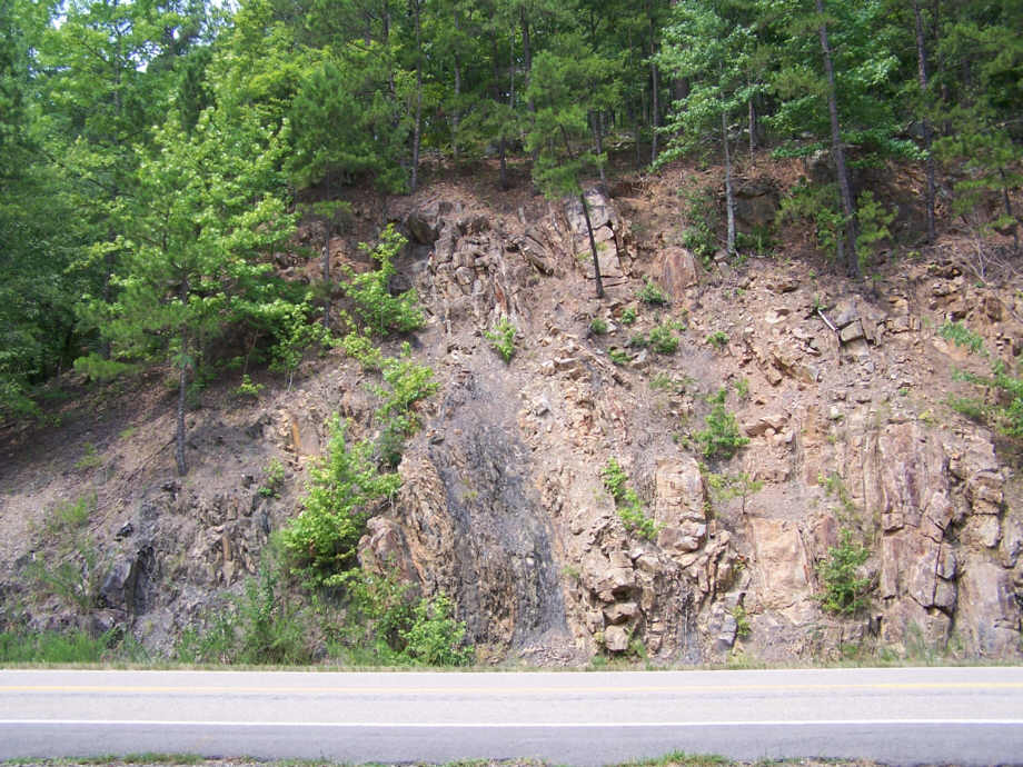 Vertical rock strata, east end of Ouachita Mountains. Personal image, taken 07/15/2005. Vsmith 15:48, 17 July 2005 (UTC)